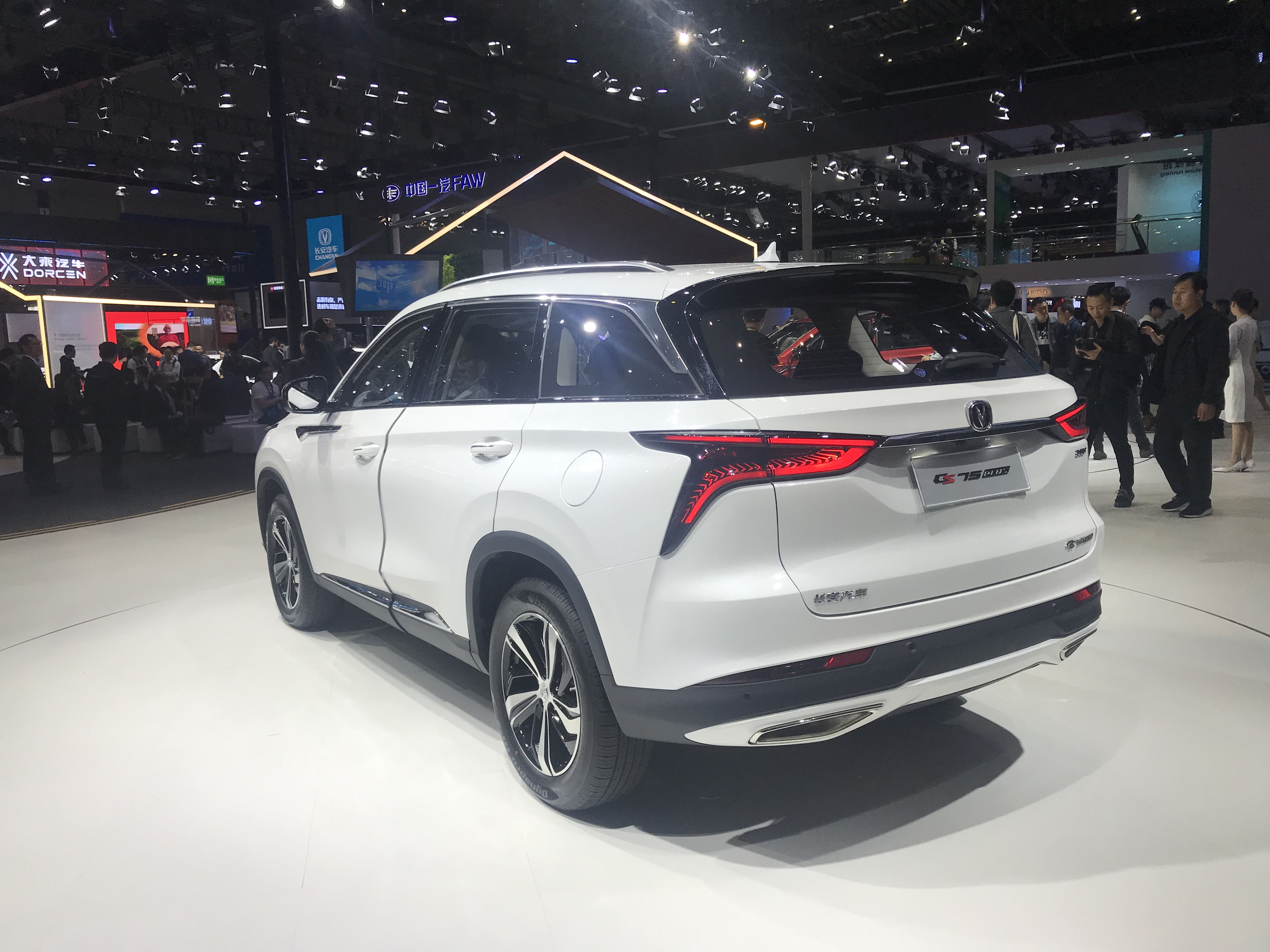 Changan CS75 Plus rear